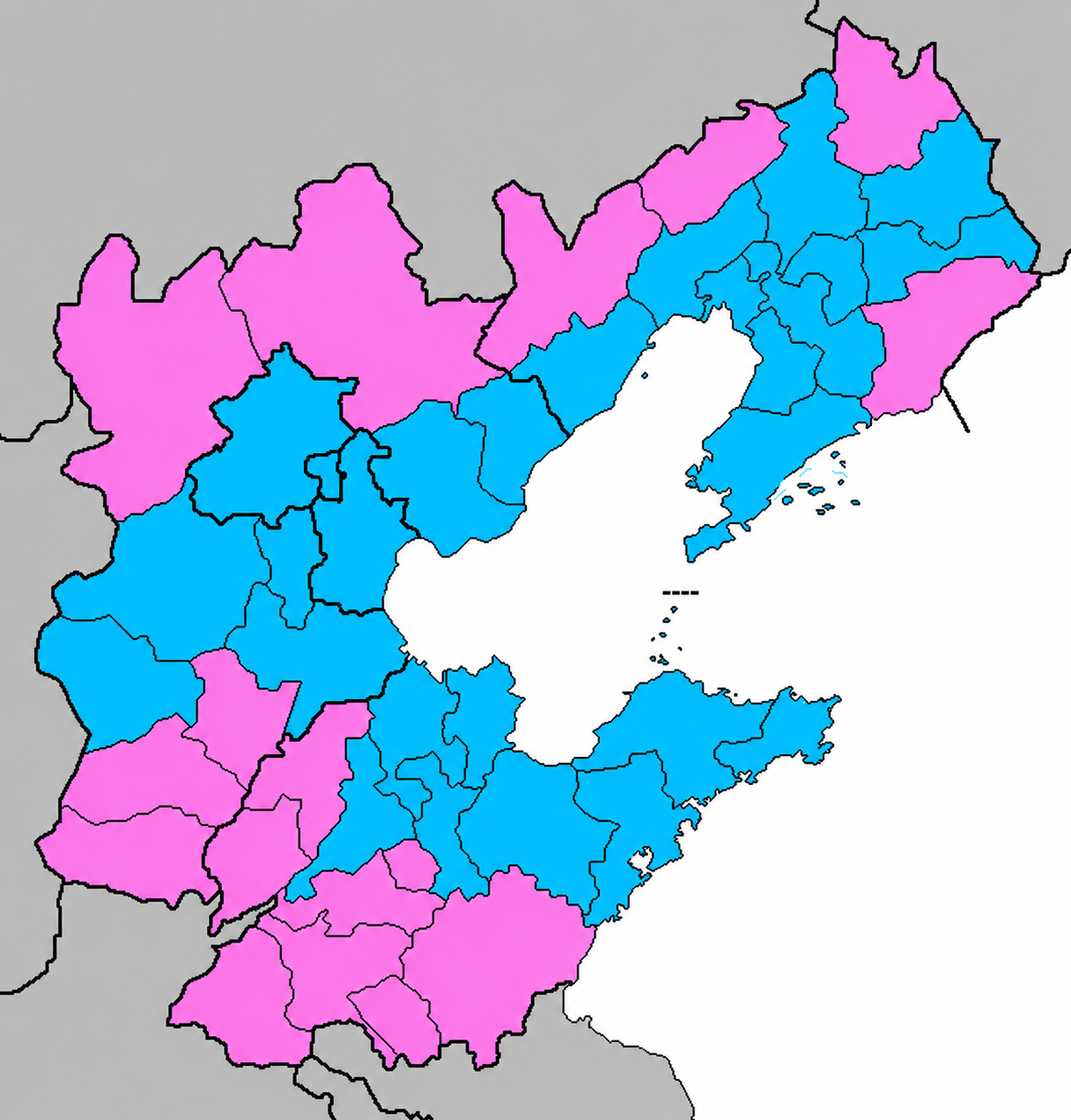 area map of Bohai Economic Rim (BER). Economic map of China